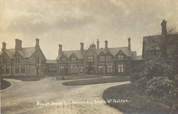 Old postcard of Blair Hospital, Bolton